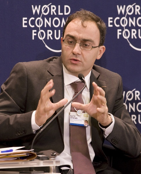 MARRAKECH/MOROCCO, 26OCT10 - Youssef Amrani, Deputy Minister of Foreign Affairs and Cooperation of Morocco - France 24 Debate The Future of The Mediterranean- World Economic Forum on the Middle East and North Africa Marrakech, Morocco, 26 October 2010. Copyright World Economic Forum ( by Alan Keohane/still